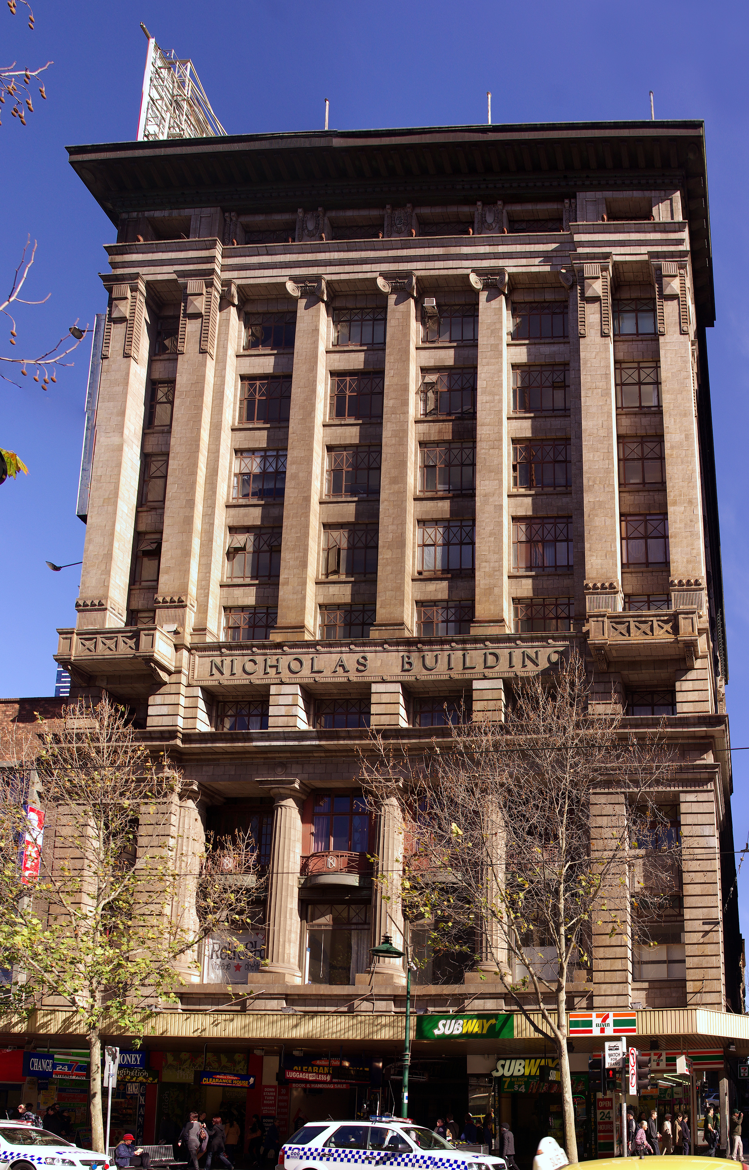 The Nicholas Building in Swanston Street, Melbourne.